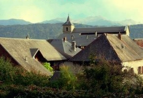 ARBIN village in Savoy (France)